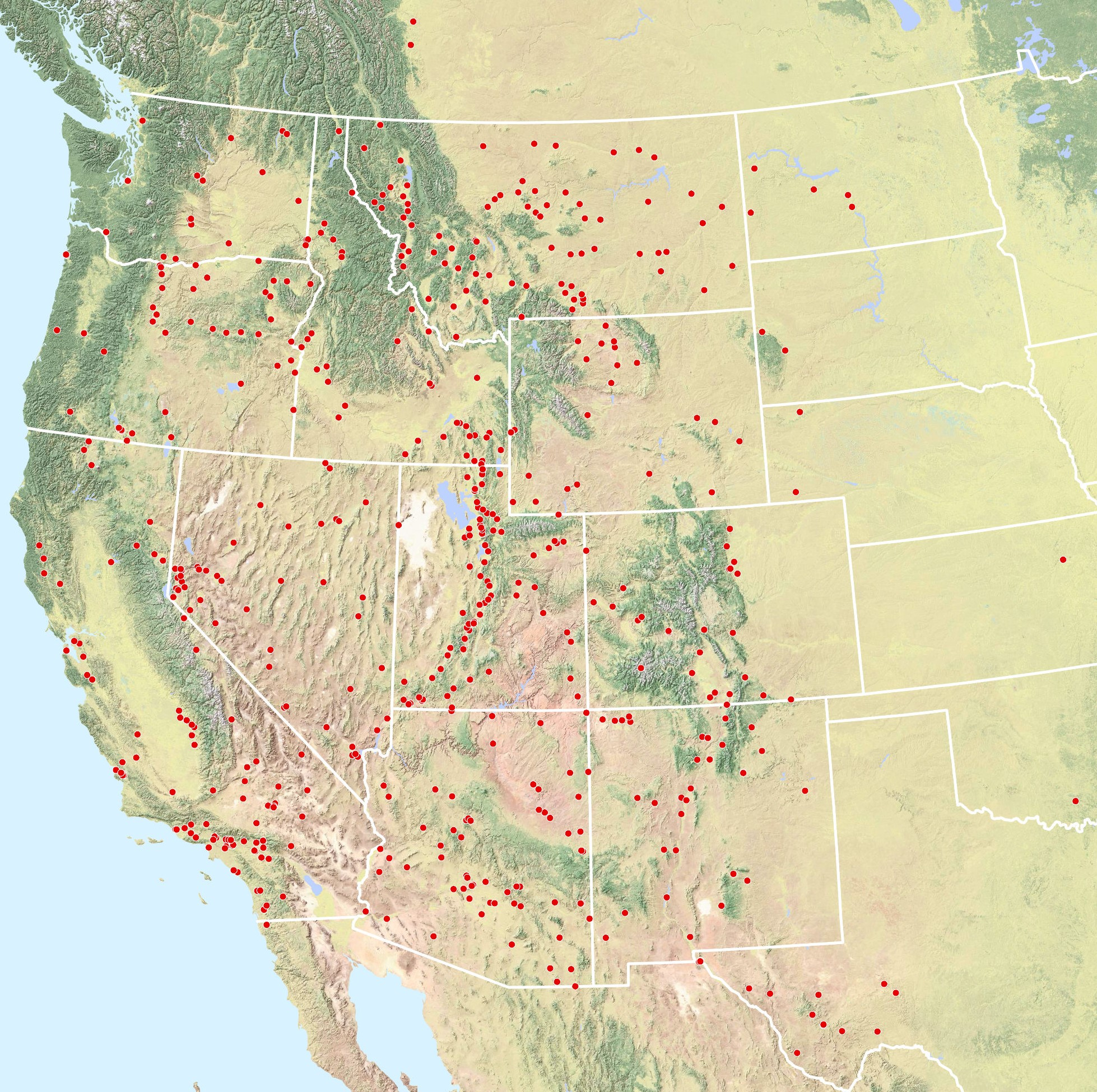 Distribution of mountain monograms (aka hillside letters) in the Western United States. Data collected by Brandon Plewe and Eric Buehler.